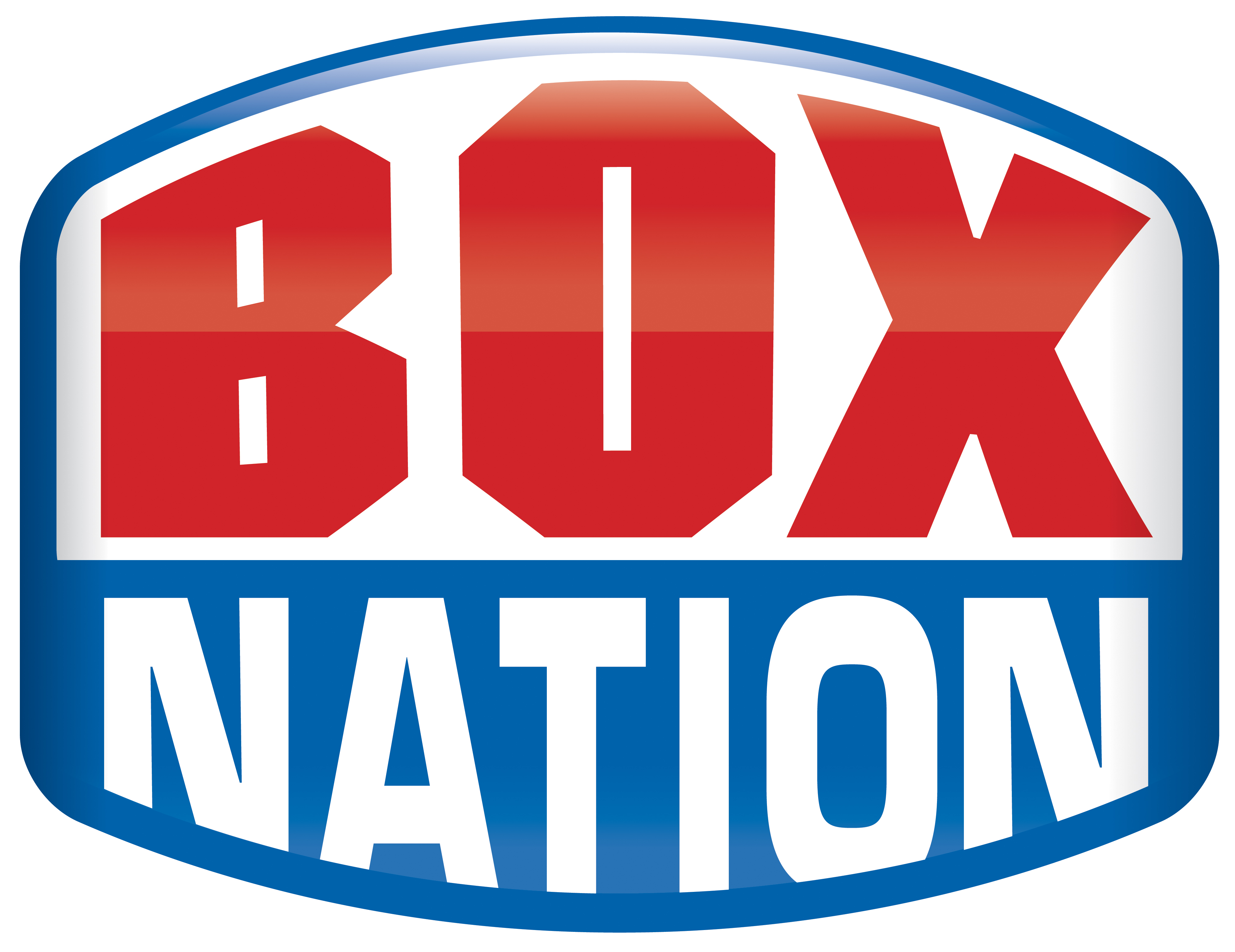 Official logo of the TV channel BoxNationTV